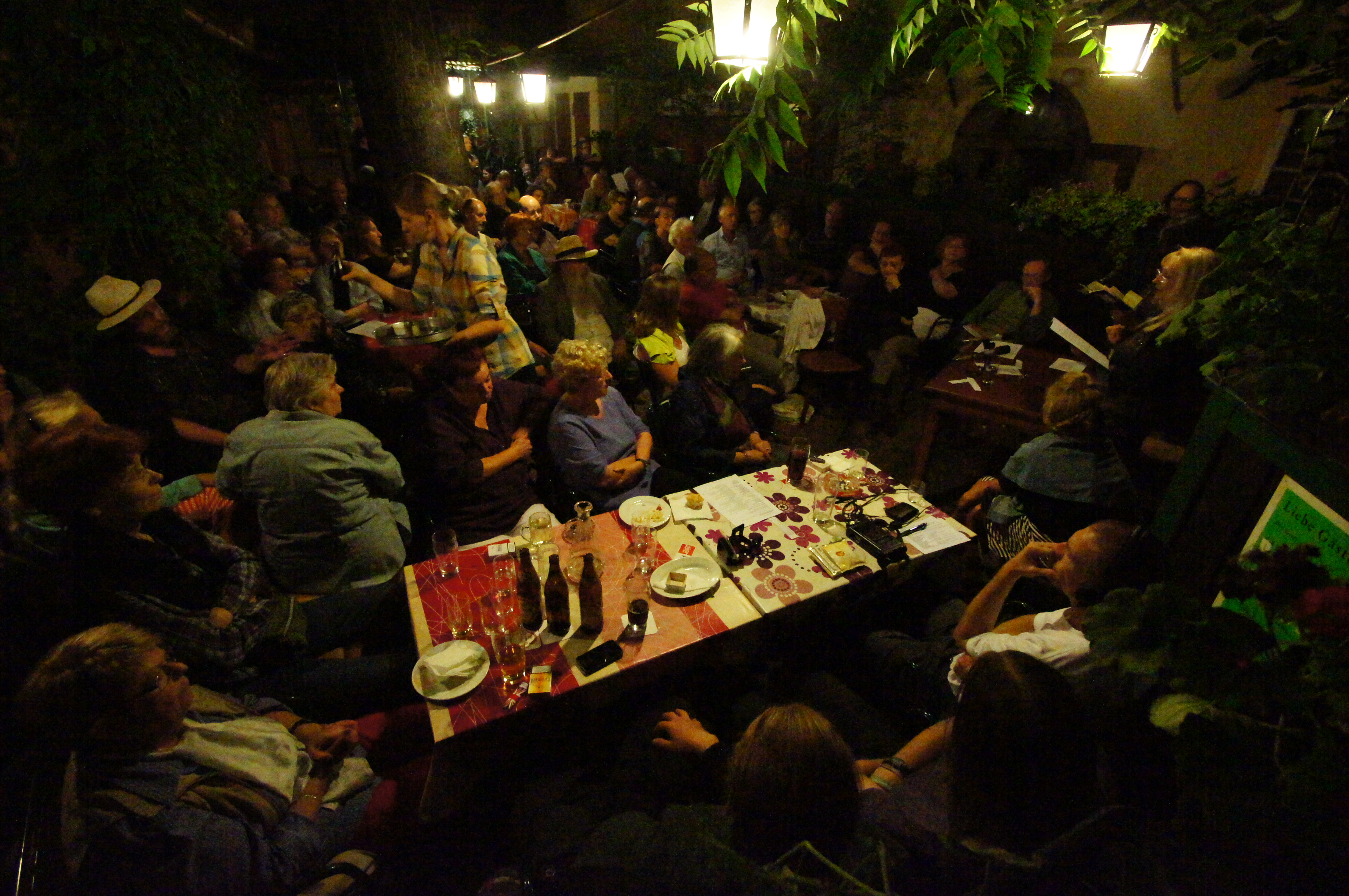 See filename. Shot was taken on occasion of Rolf Schwendter's birthday's party 2013, happening on one of Schwendter's favourite locations... Unfortunately, Rolf deceased a few days earlier...